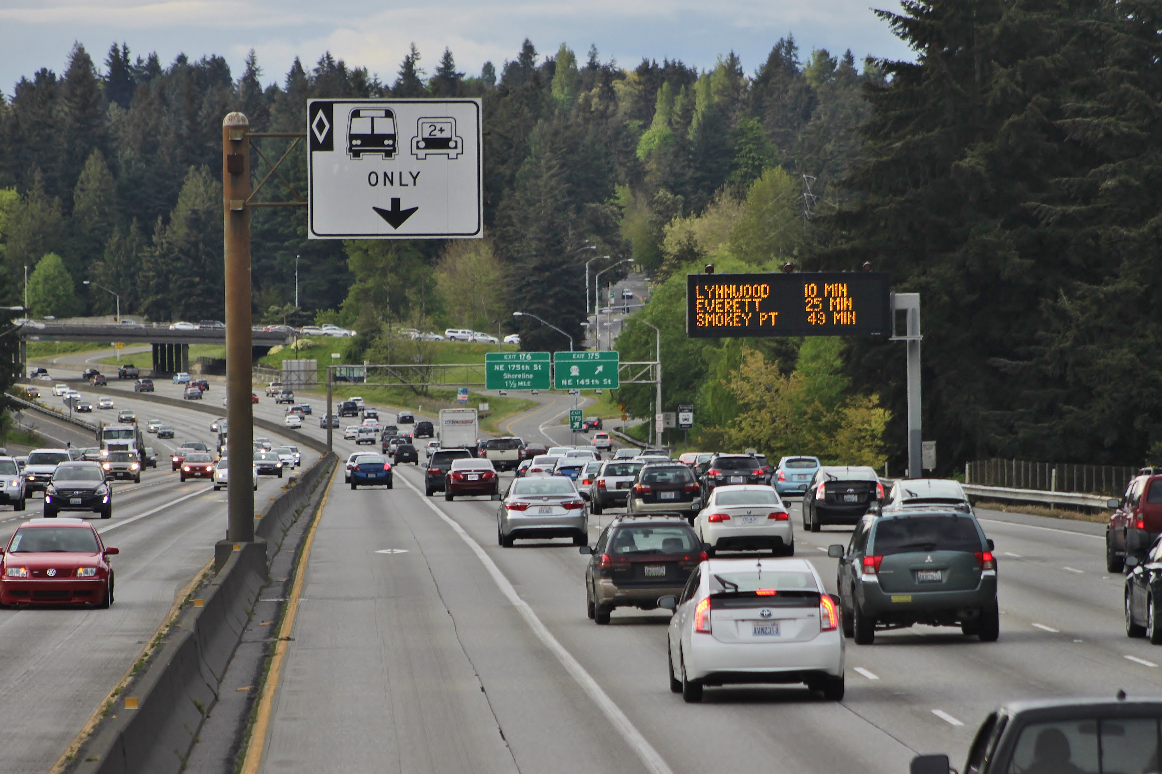 A HOV lane sign and variable-message sign on Interstate 5 northbound in Seattle, Washington, approaching SR 523 in Shoreline.